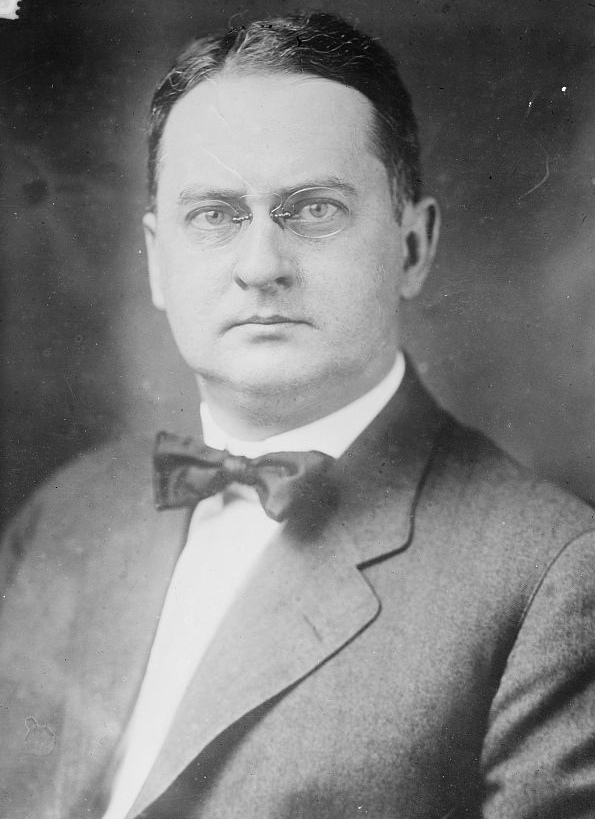 Keene H. Addington of the Federal League circa 1915